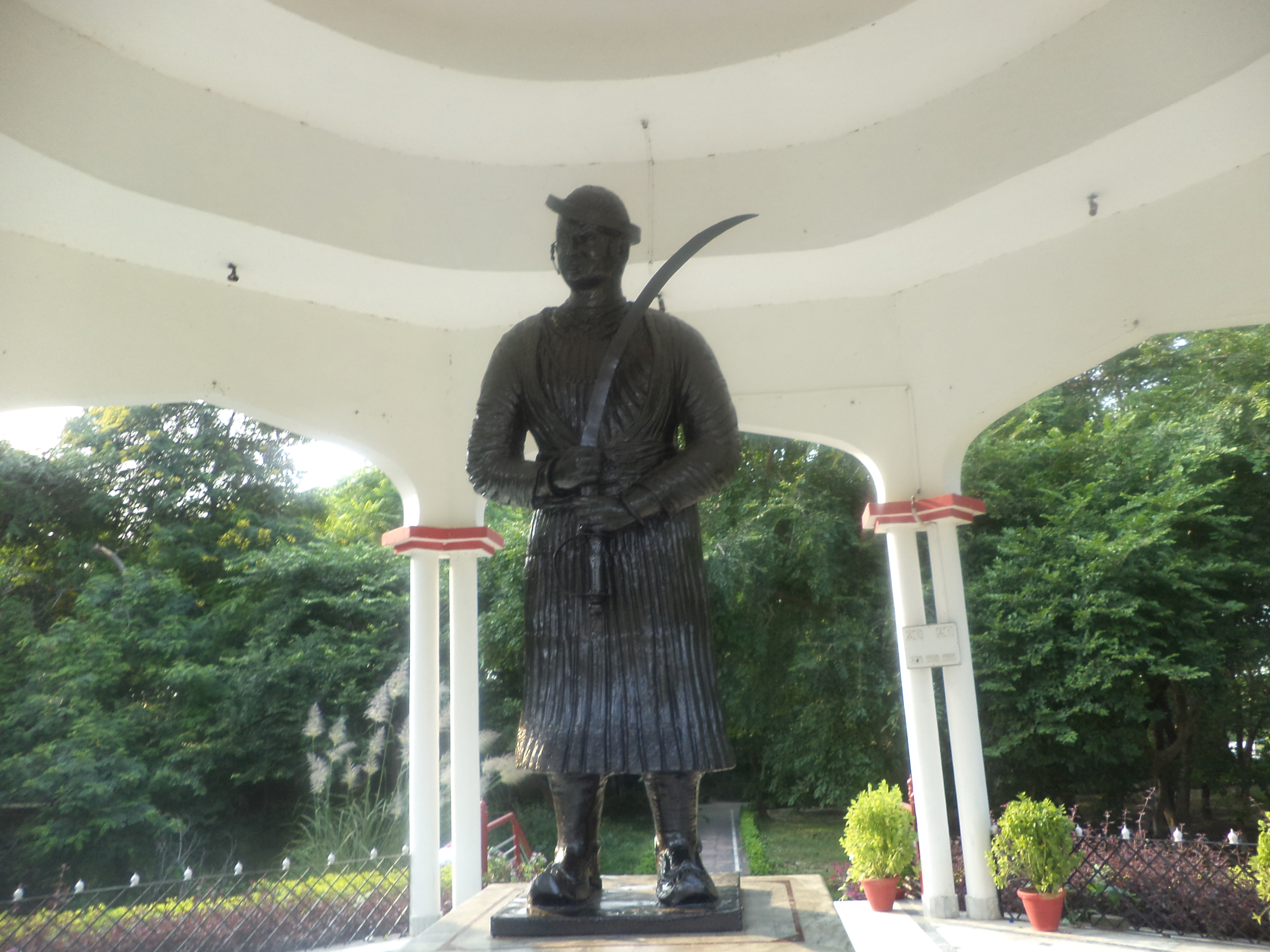 This is statue of Nana Sahib at Bithoor, Kanpur.